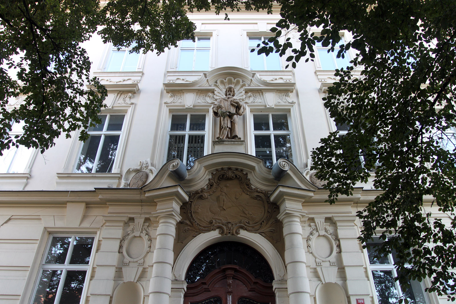 Gymnasium in Podebrady